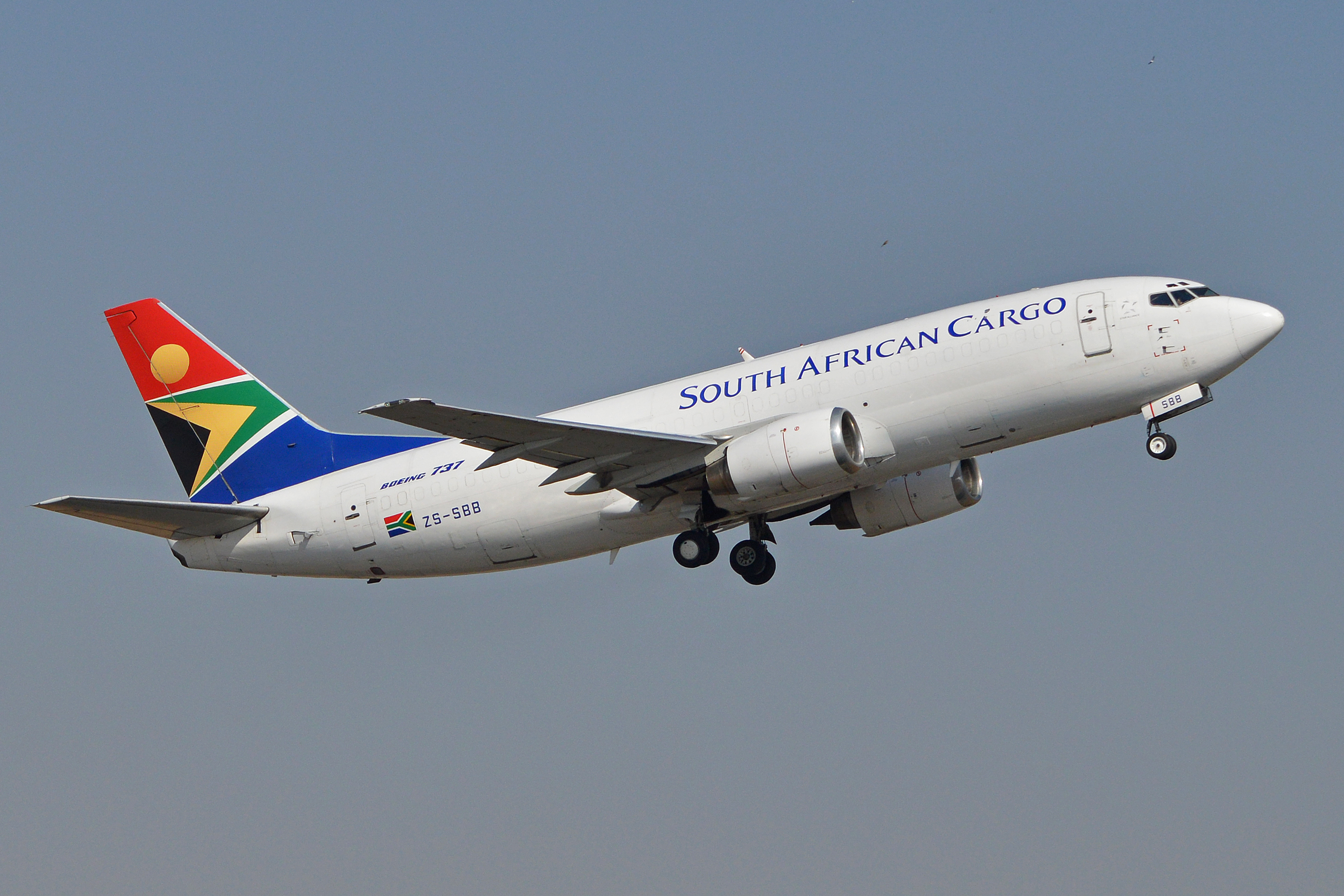 c/n 26072, l/n 2369. Built 1992 for China Southwest Airlines as B-2595. Joined South African Cargo in 2007. Seen departing O.R. Tambo International Airport, Johannesburg, South Africa. 16-9-2014